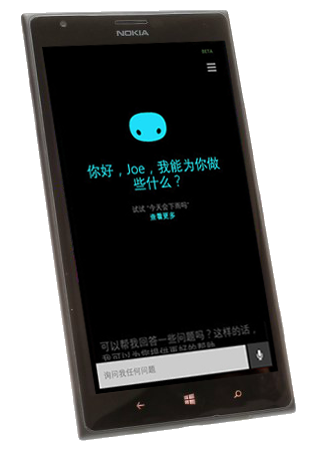 Cortana's chinese version (Xiao Na)